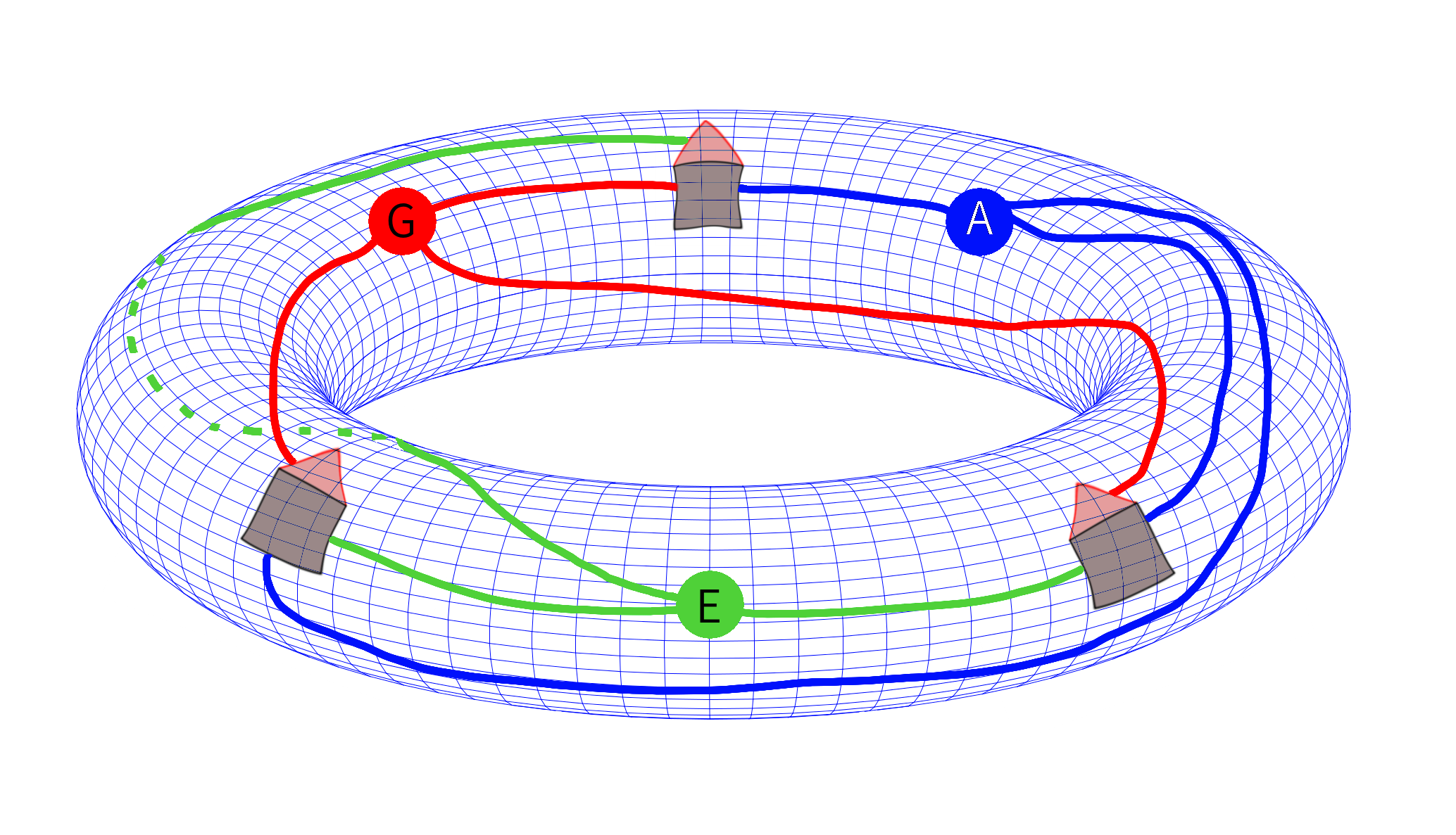 Solution to the "Three utility problem", using the surface of a toroid. Torus plot created with gnuplot: set parametric set hidden3d set view 45 set isosamples 90,40 splot [-pi:pi][-pi:pi] cos(u)*(cos(v)+4), sin(u)*(cos(v)+4), sin(v)